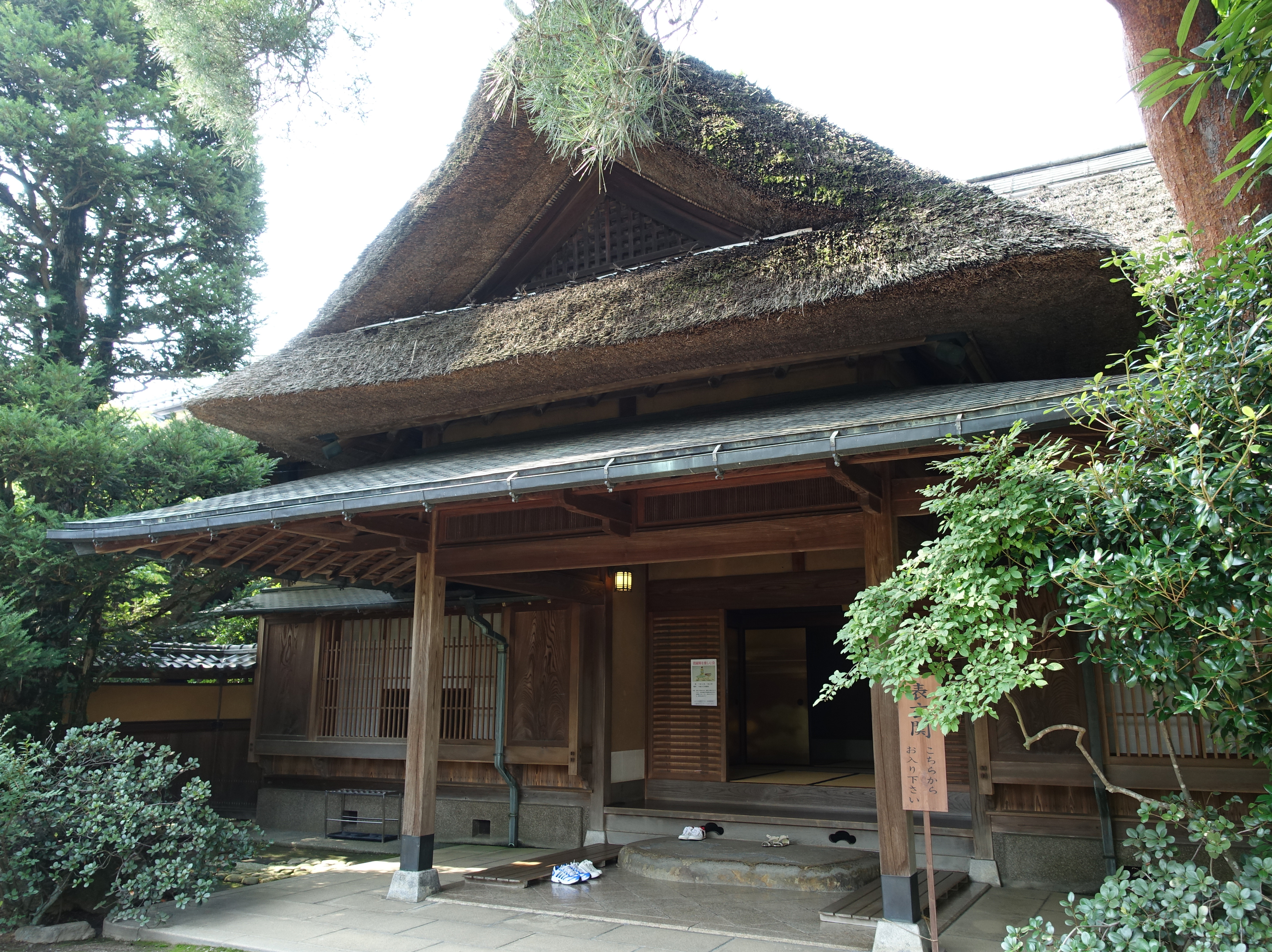 Toyama Memorial Museum in Kawajima Town, Saitama Prefecture, Japan